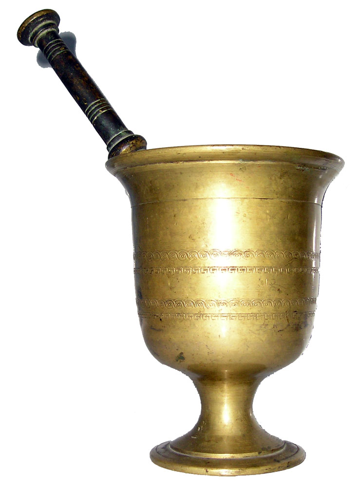 Mortar from Greece